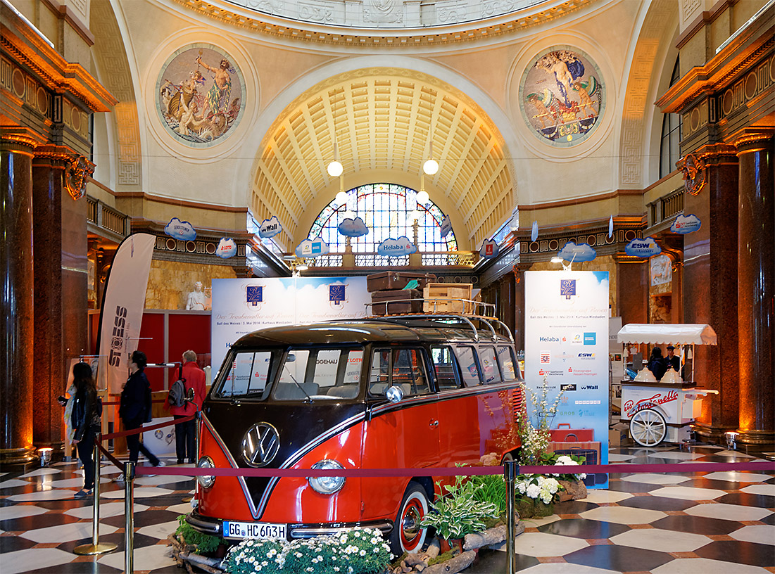 Wine Ball 2014 in Kurhaus (spa house) Wiesbaden, Germany. (Ball9790-Vvf3.jpg)